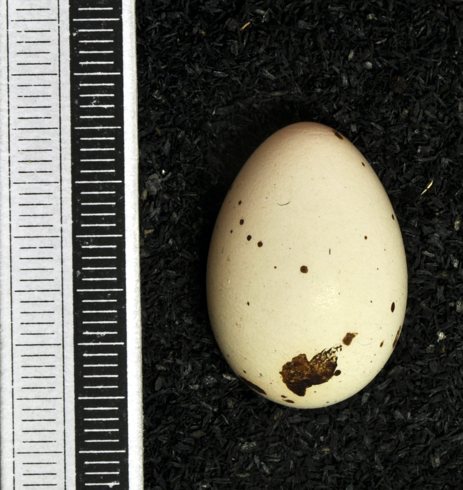 Black drongo Dicrurus macrocercus , egg, Coll. Museum Wiesbaden